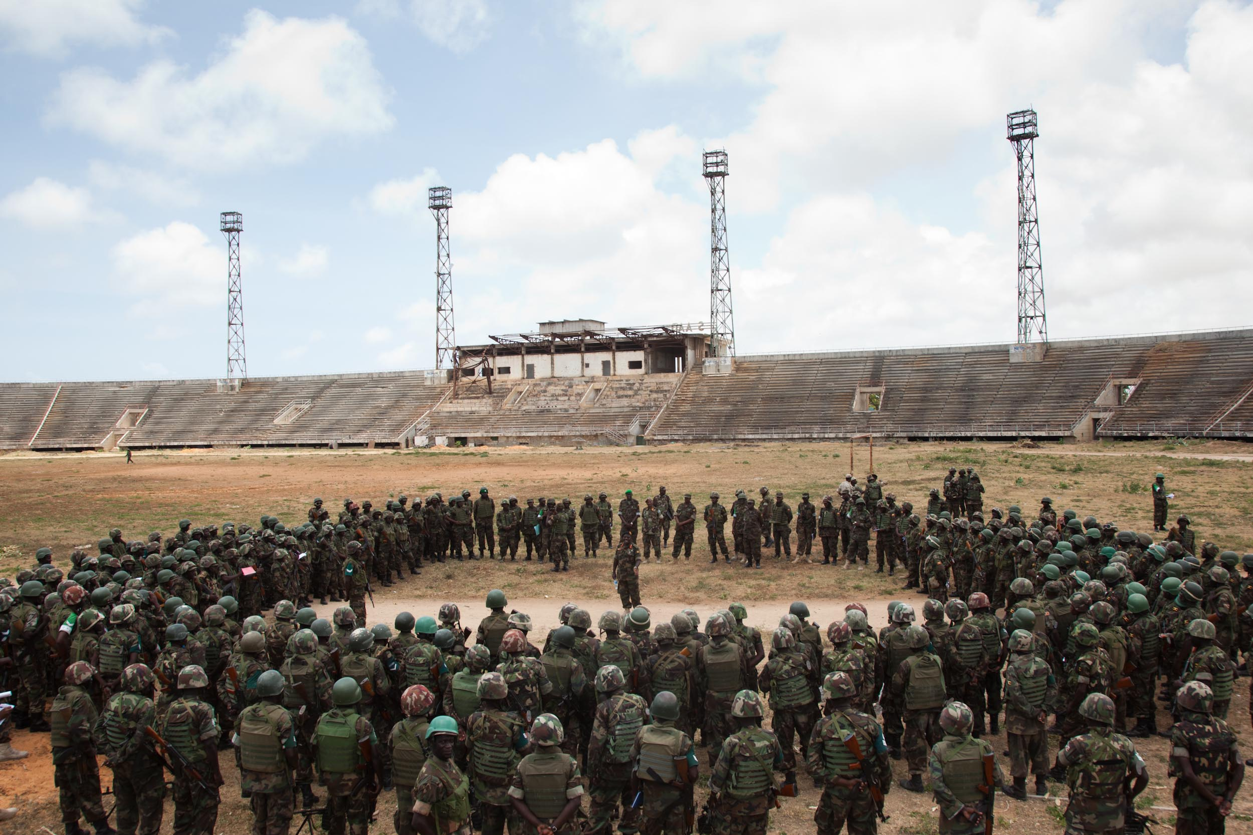 18/09/2011 - Mogadishu, Somalia - Commander of UPDF Land Forces Lieutenant General Edward Katumba Wamala addresses soldiers of the 7th Batallion in the Somali National Stadium, Mogadishu. The stadium was previously the base for al-Shabaab until their withdrawal from the capital on August 6th 2011. The Commander congratulated the soldiers on their success but warned them to remain vigilant in the coming months.